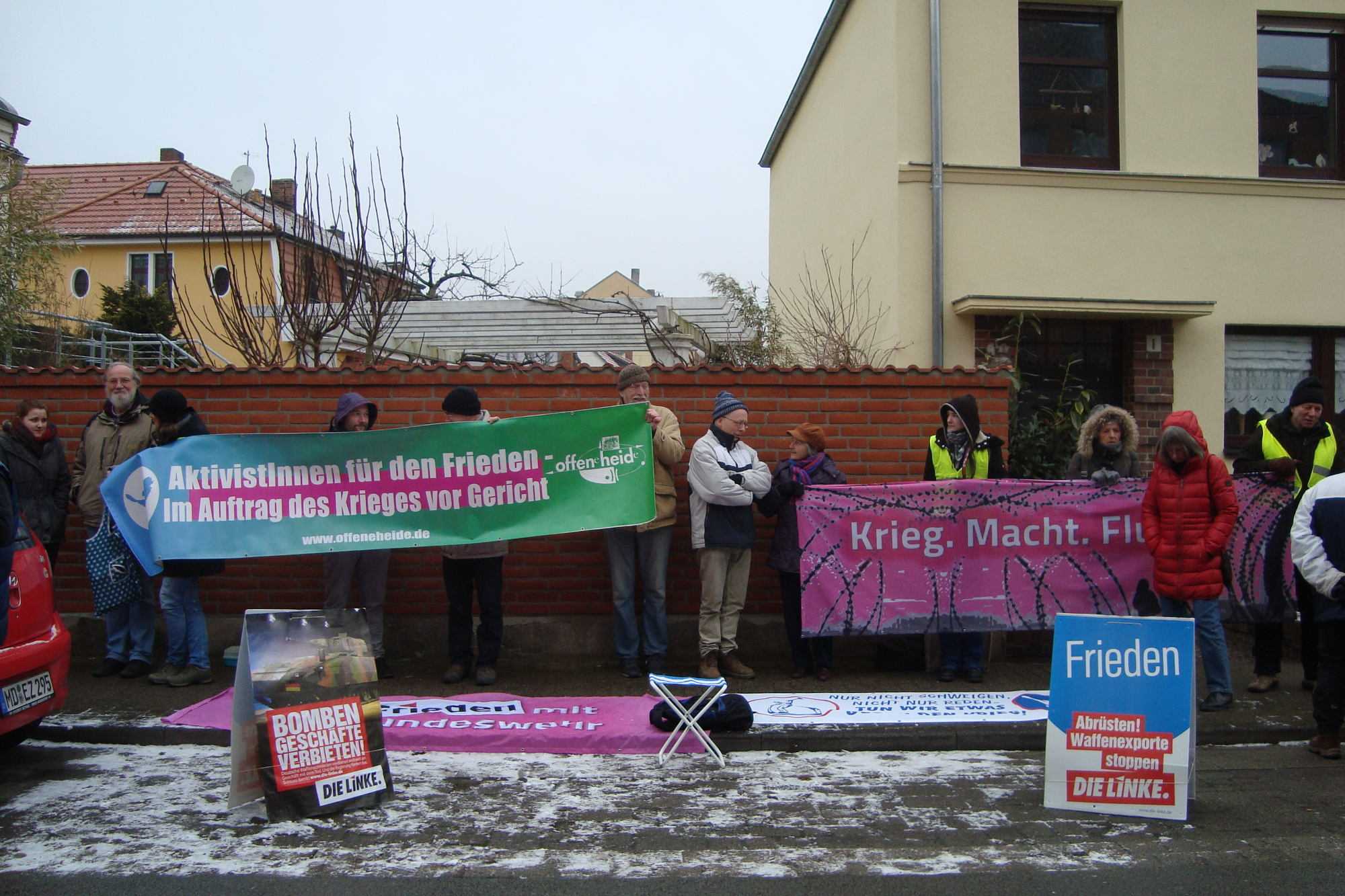 Prozess gegen Aktivisten der Offenen Heide in Gardelegen im März 2018